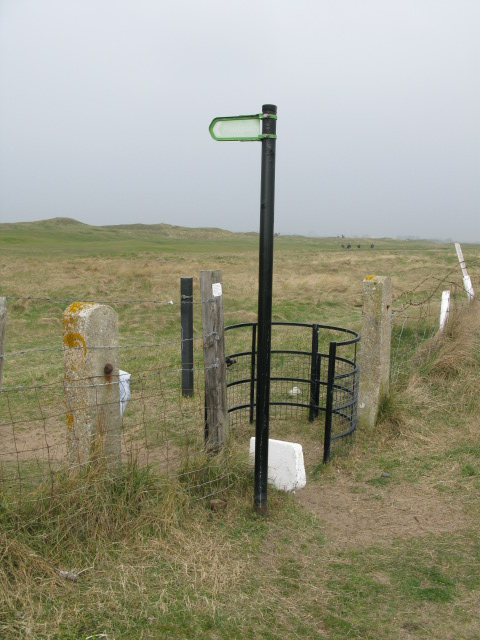 Footpath across Royal St George's golf course